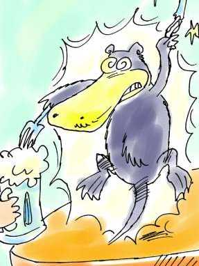 "Das Schnabeltier" ("The duck-billed platypus", Lyrik- und Liedillustration von I.Astalos) by permission of the author